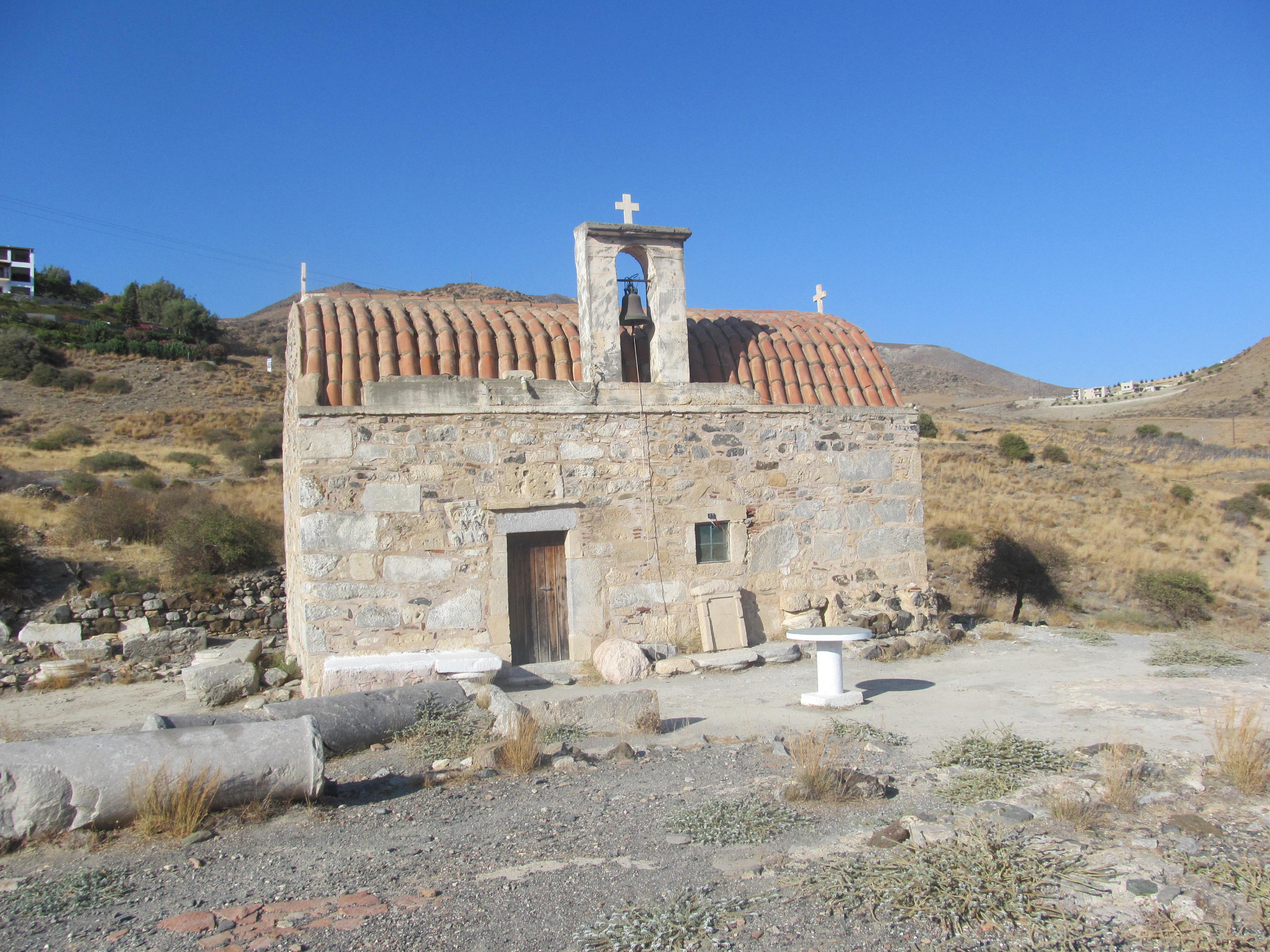 Church of St. John from 15th century on the place of former basilica in Lentas